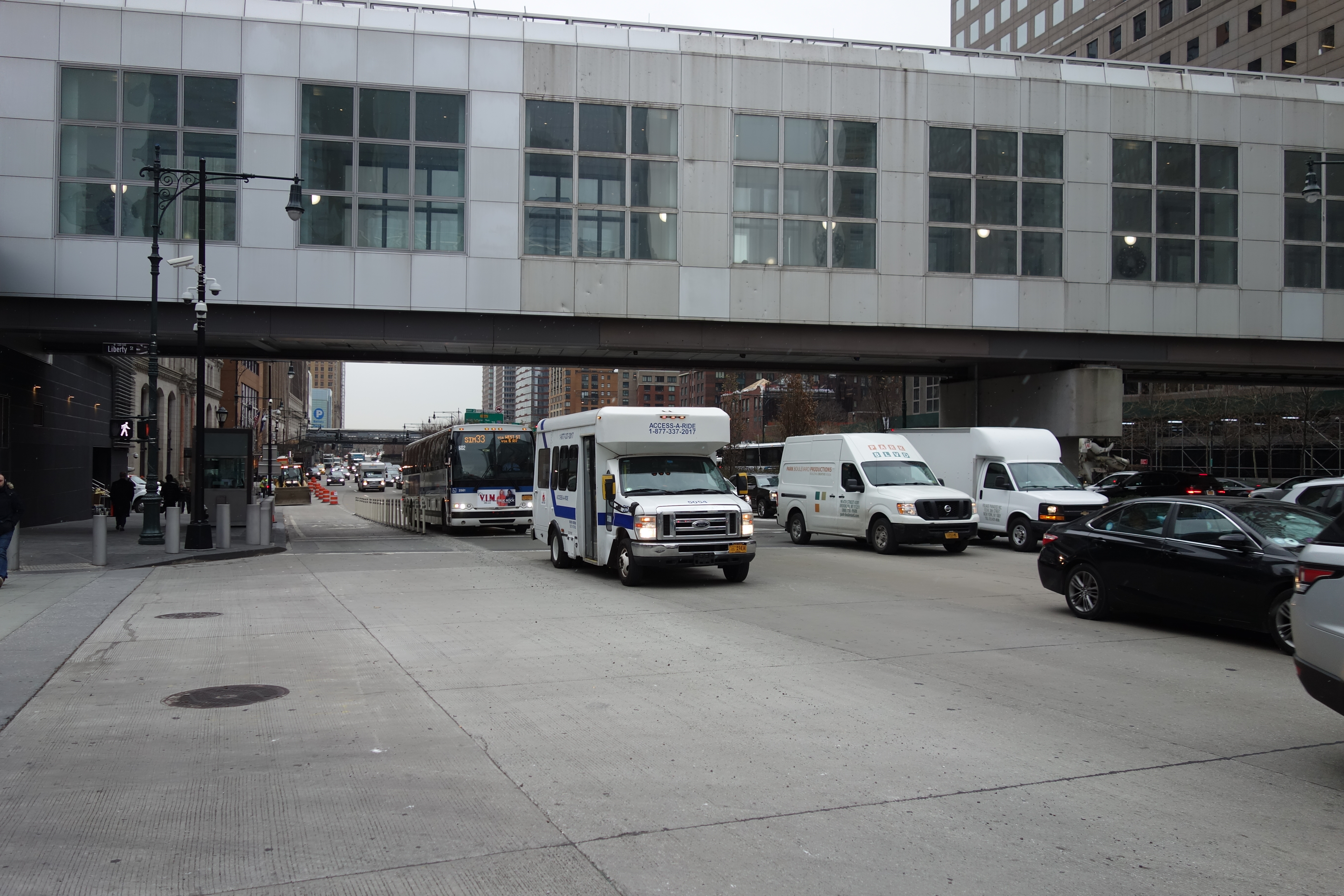 An Access-A-Ride bus and an SIM33 express bus traveling north on West Street at Liberty Street in Battery Park City / Financial District, Manhattan.